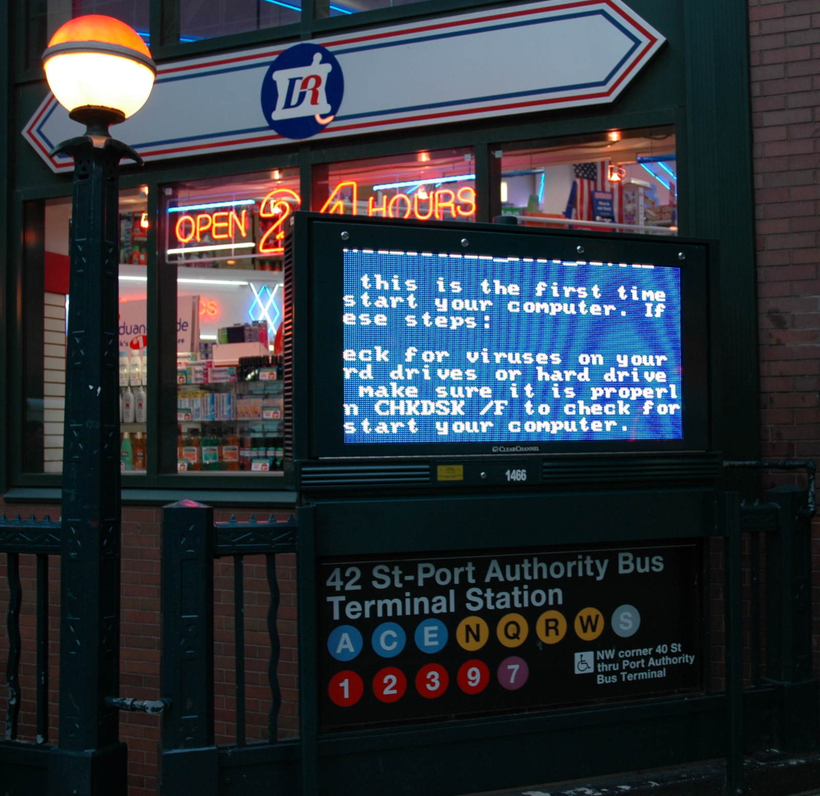 This is the 42nd Street subway station on the IND Eighth Avenue Line in New York City. An ad display, apparently run under Windows, on the NW corner of 42nd & 8th ave. It was left this way for several days before someone got around to fixing it. No, I didn't fake it. :)